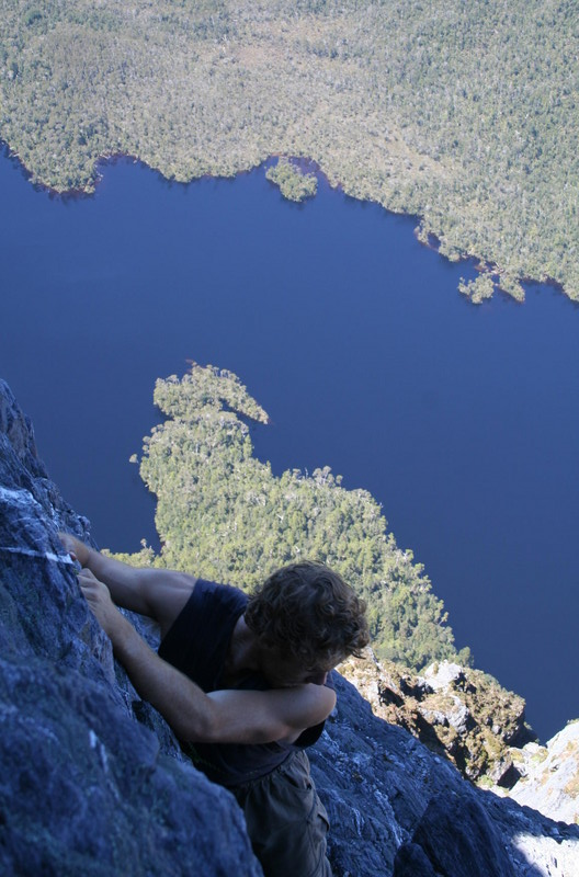 Down-climbing the Direct Ascent route of Federation Peak, South West Tasmania, Australia. Lake Geeves in the background, to the south. Climber: Luke Robinson.